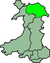 Map of "Ceremonial County" of Clwyd, 2003 borders